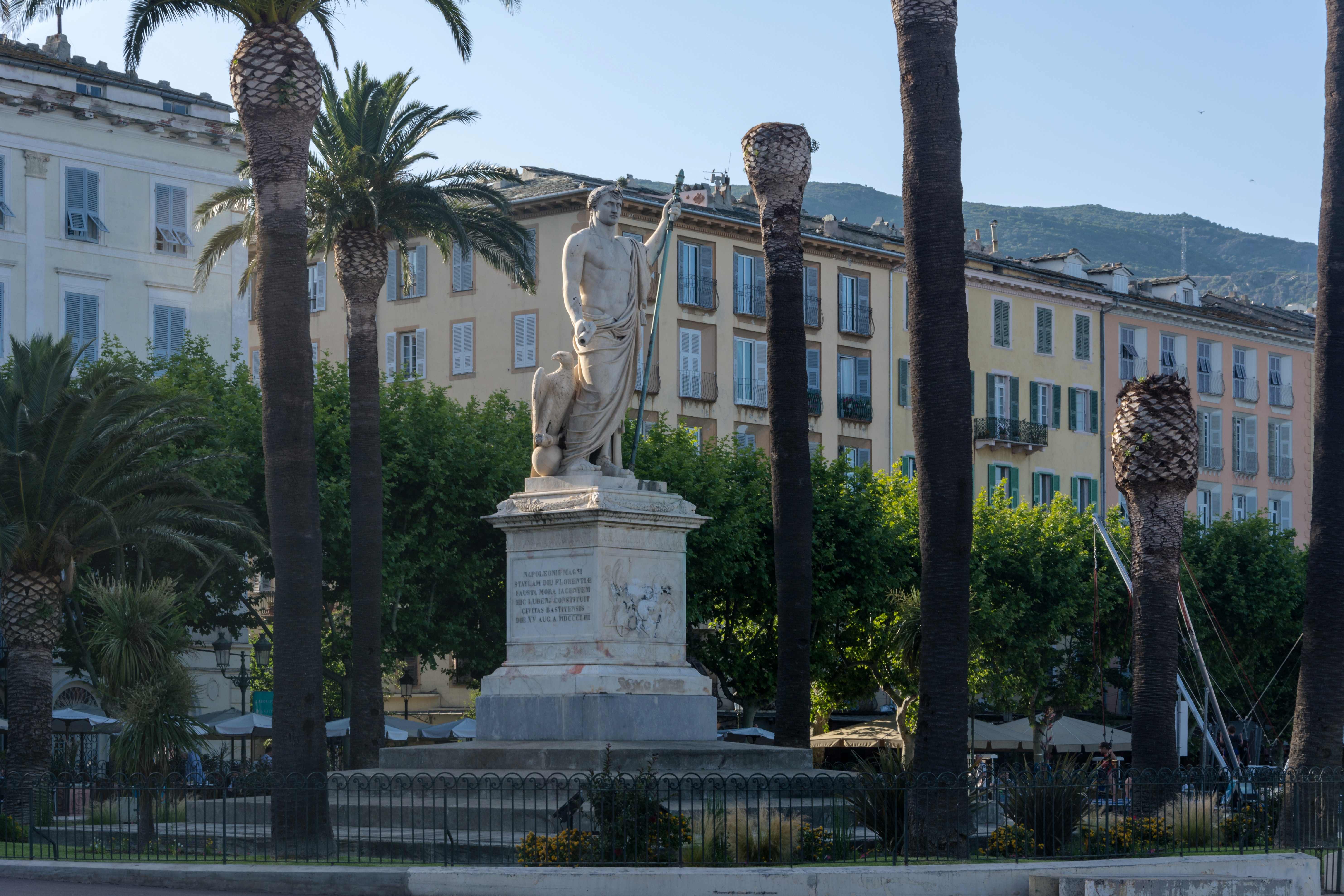 The square of Saint-Nicolas has a length of 300 Meters and a width of 70 Meters. At the south end of the place there is a monument of Napoleon Bonaparte, at the north end there is a memorial to the war of 1870/71.